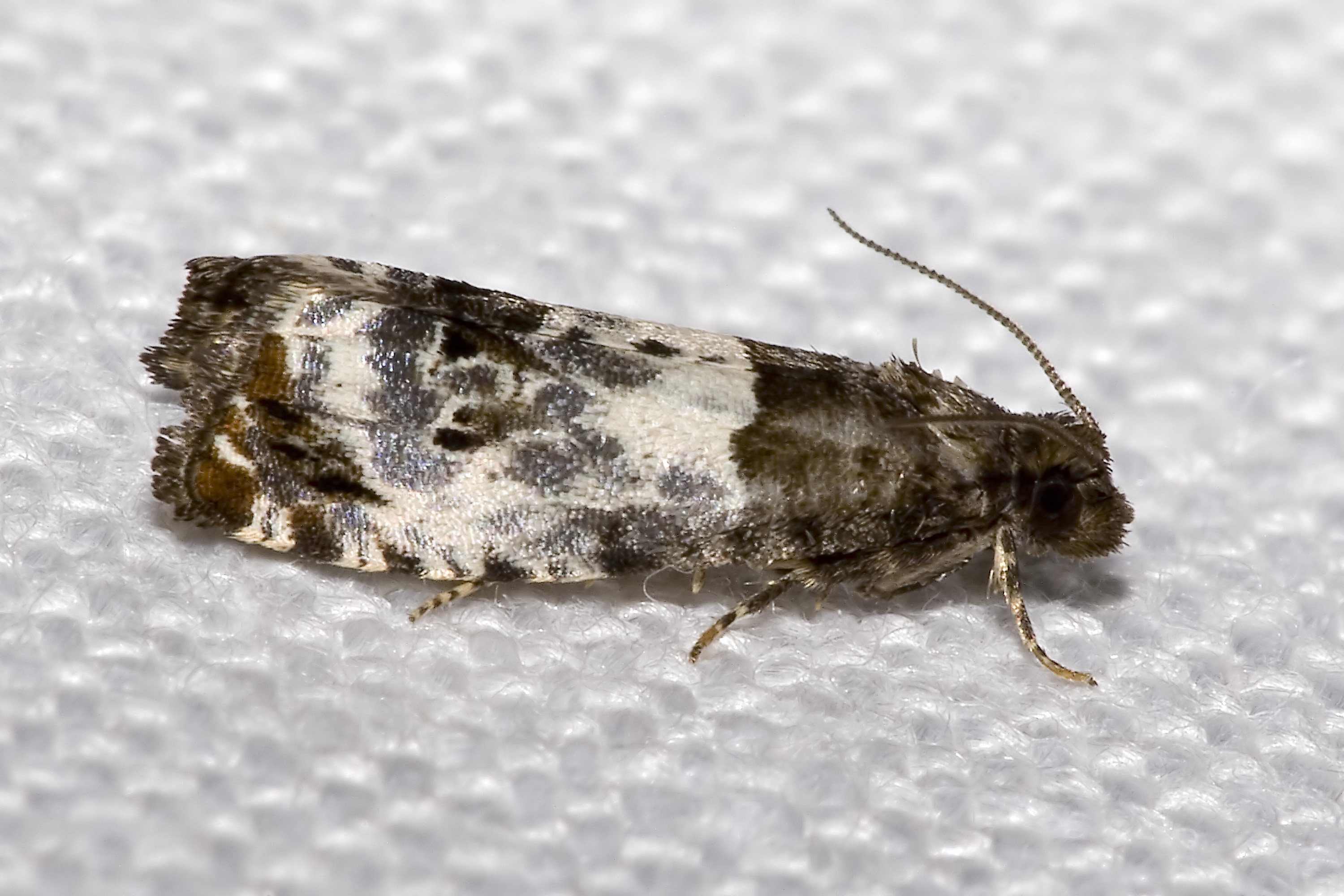 Notocelia rosaecolana (Doubleday, 1850) Location: Dresden, Pohrsdorfer Weg (Saxony, Germany) 5/180L f22 Film / Speed: ISO 100 Comment: Canon Flash 580EX